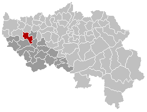 Map, municipality belgium Villers-le-Bouillet